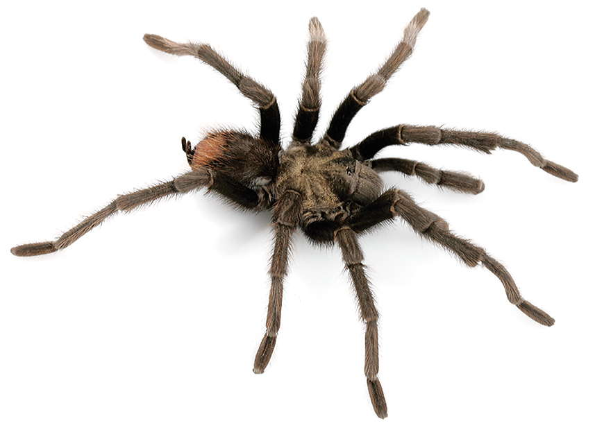 Aphonopelma eutylenum male